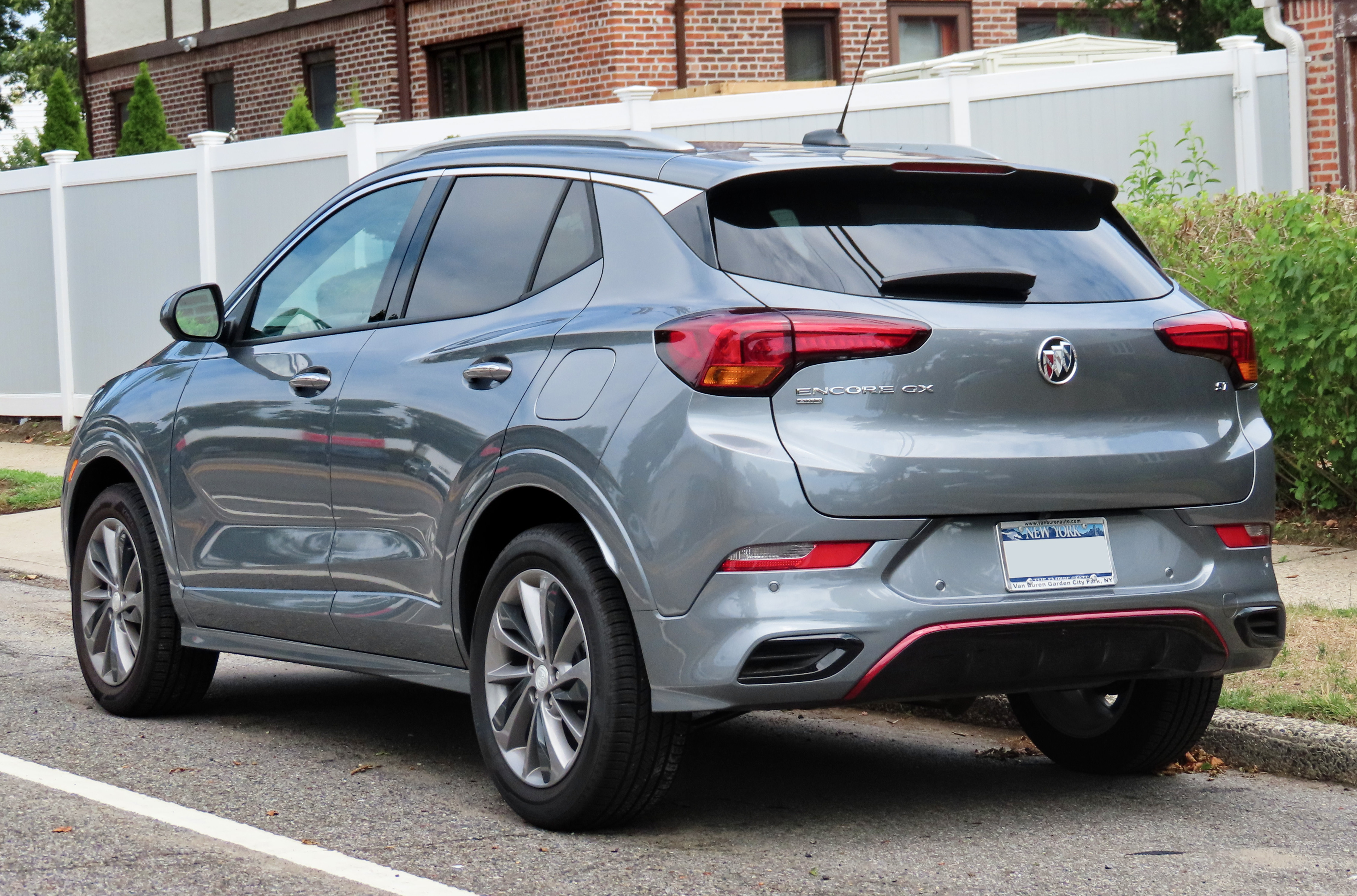 A 2020 Buick Encore GX 'Essence' ST photographed in Fresh Meadows, Queens, New York, USA